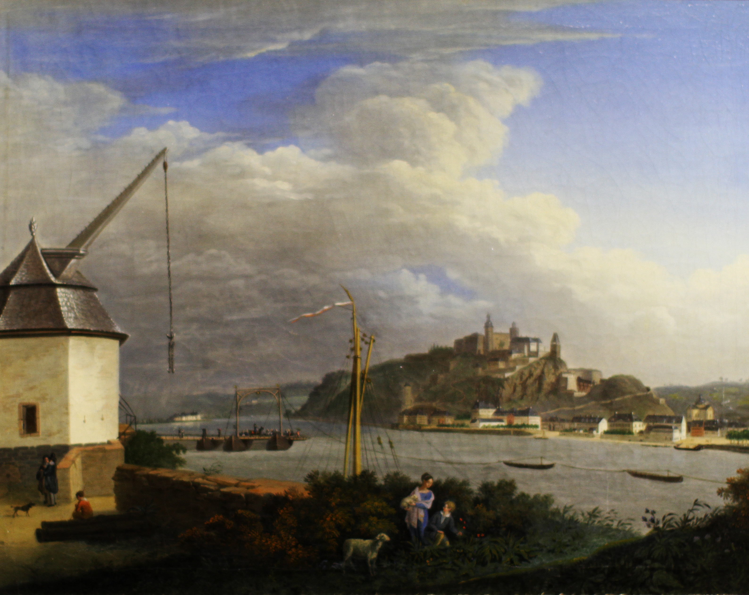 Conrad Zick, old crane house in Koblenz. Oil painting in1816